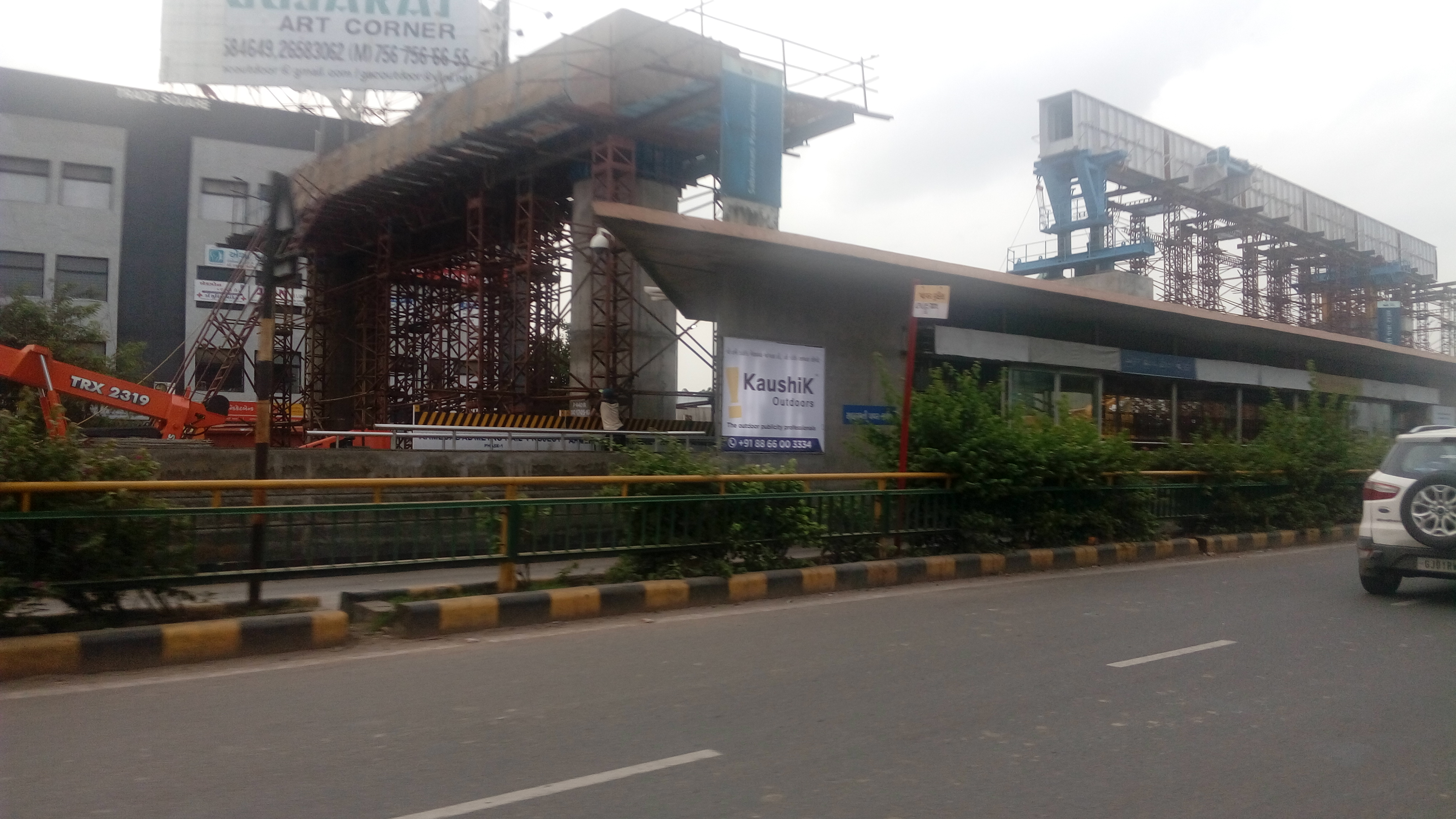 Ahmedabad Metro North South Line Underconstruction near Sabarmati Powerhouse and Sabarmati Railway Station 9 July 2017.